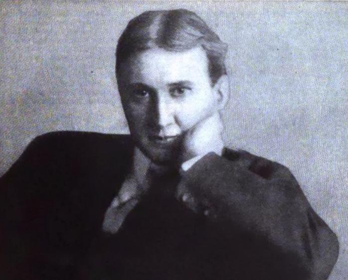 1910 portrait of Robert Welch Herrick.